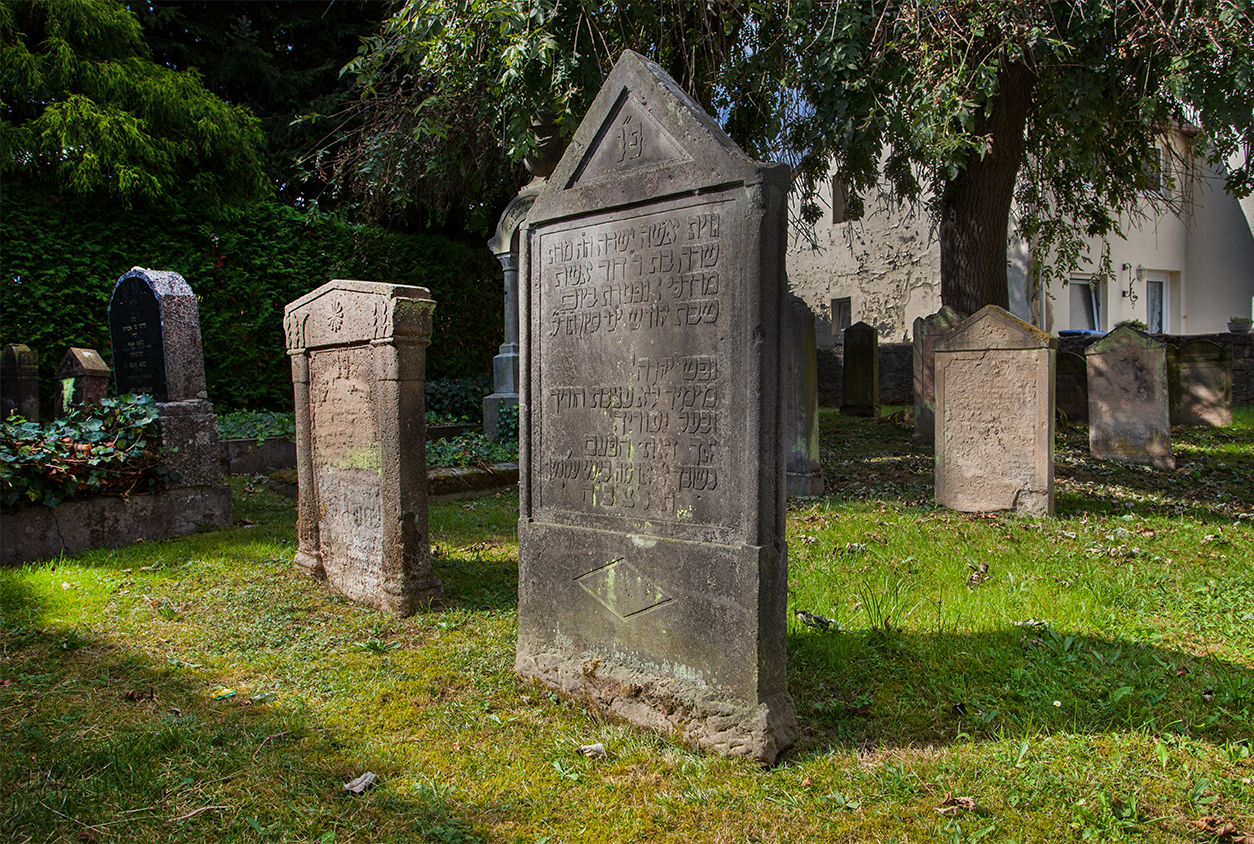 Jewish cemetry in Barntrup, Kreis Lippe This is the photograph of an architectural monument. It is part of the list of cultural monuments of Barntrup, no. 43